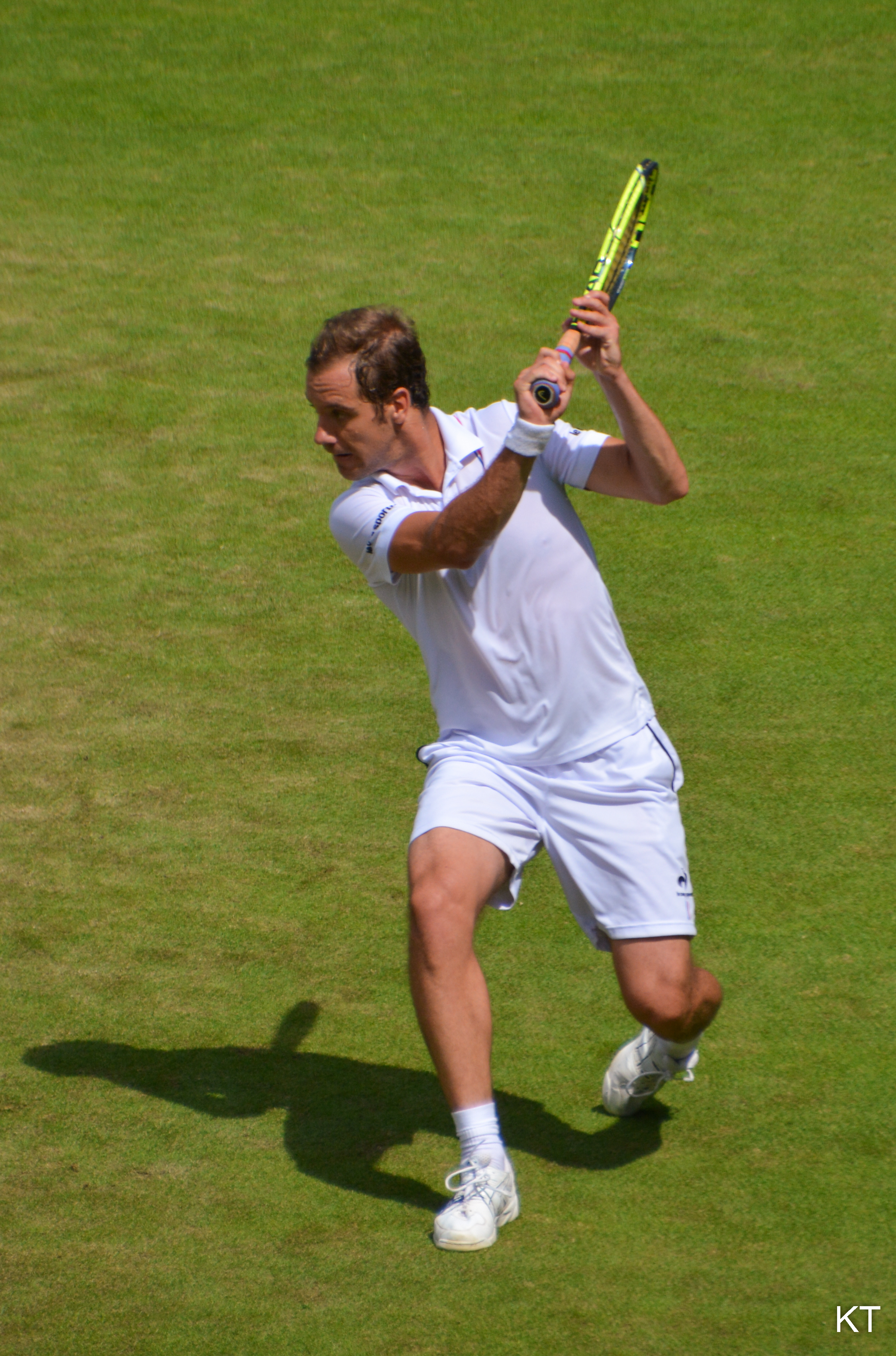 Richard Gasquet beat Grigor Dimitrov 6-3, 6-4, 6-4 on Centre Court. Day 5 of Wimbledon 2015.